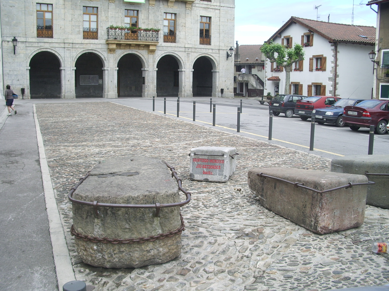 Stones for Idi-dema (ox contest) in Astigarraga, Guipuscoa (Basque Country)